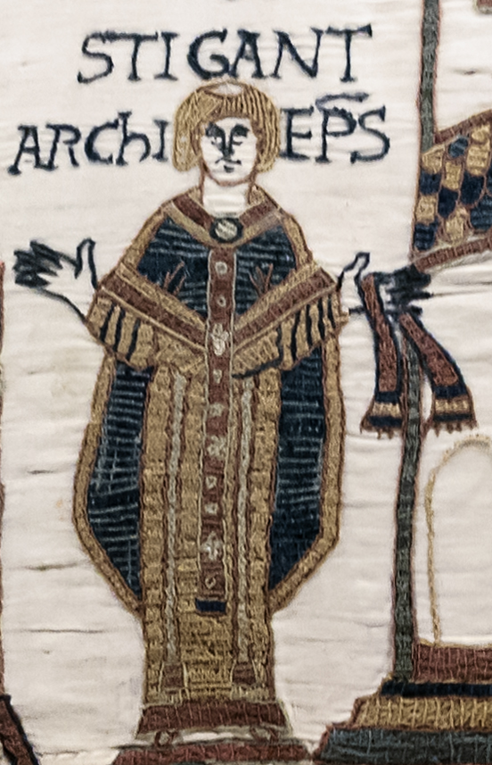 Bayeux Tapestry - Scene 31 (detail): Archbishop Stigand. Titulus: STIGANT ARCHIEP[ISCOPU]S (Archbishop Stigand)